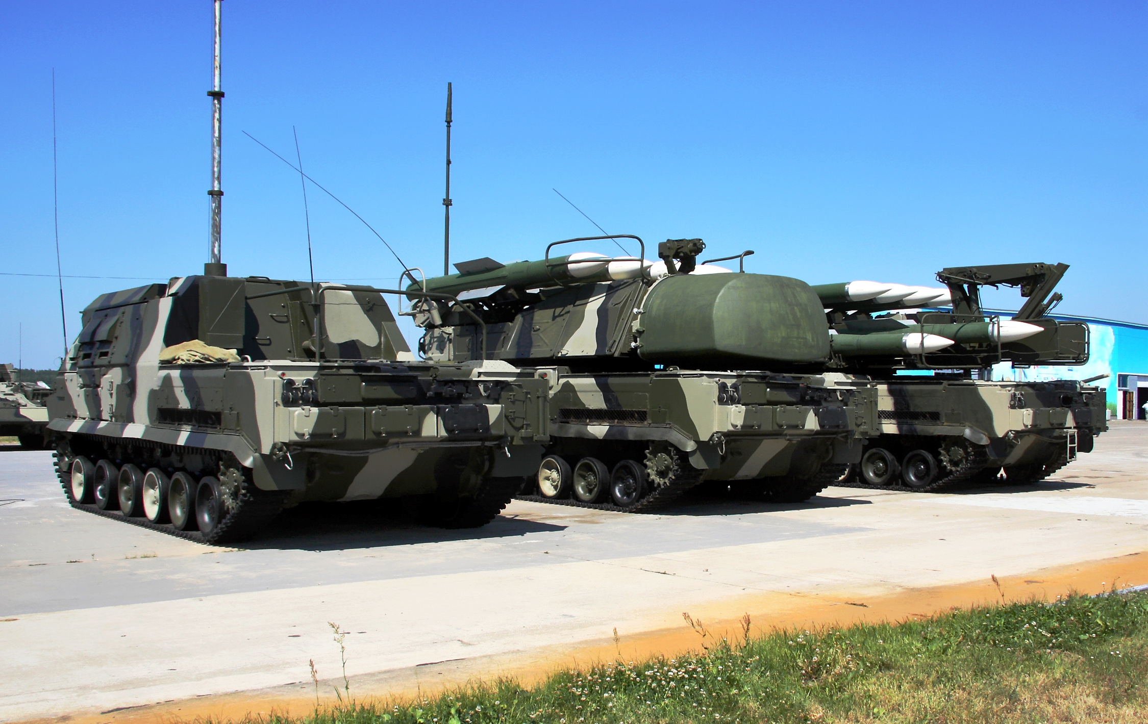 Buk-M1-2 air defence system in 2010. Command post 9C470M1-2, TELAR 9A310M1-2 and a TEL 9A39M1-2 from the backside. Static display at Engineering technologies 2010 exposition.